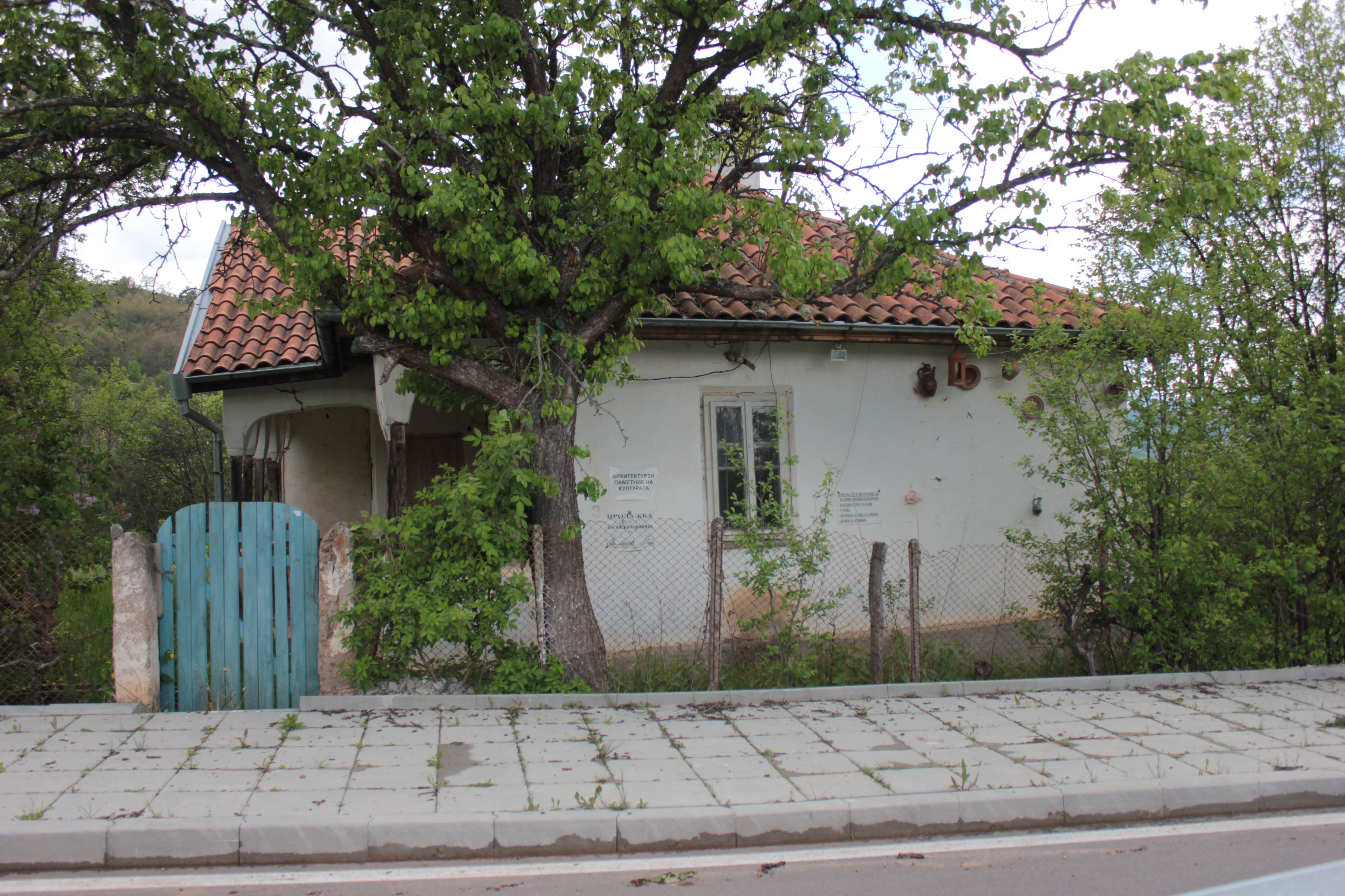 Gigov house in Busintsi